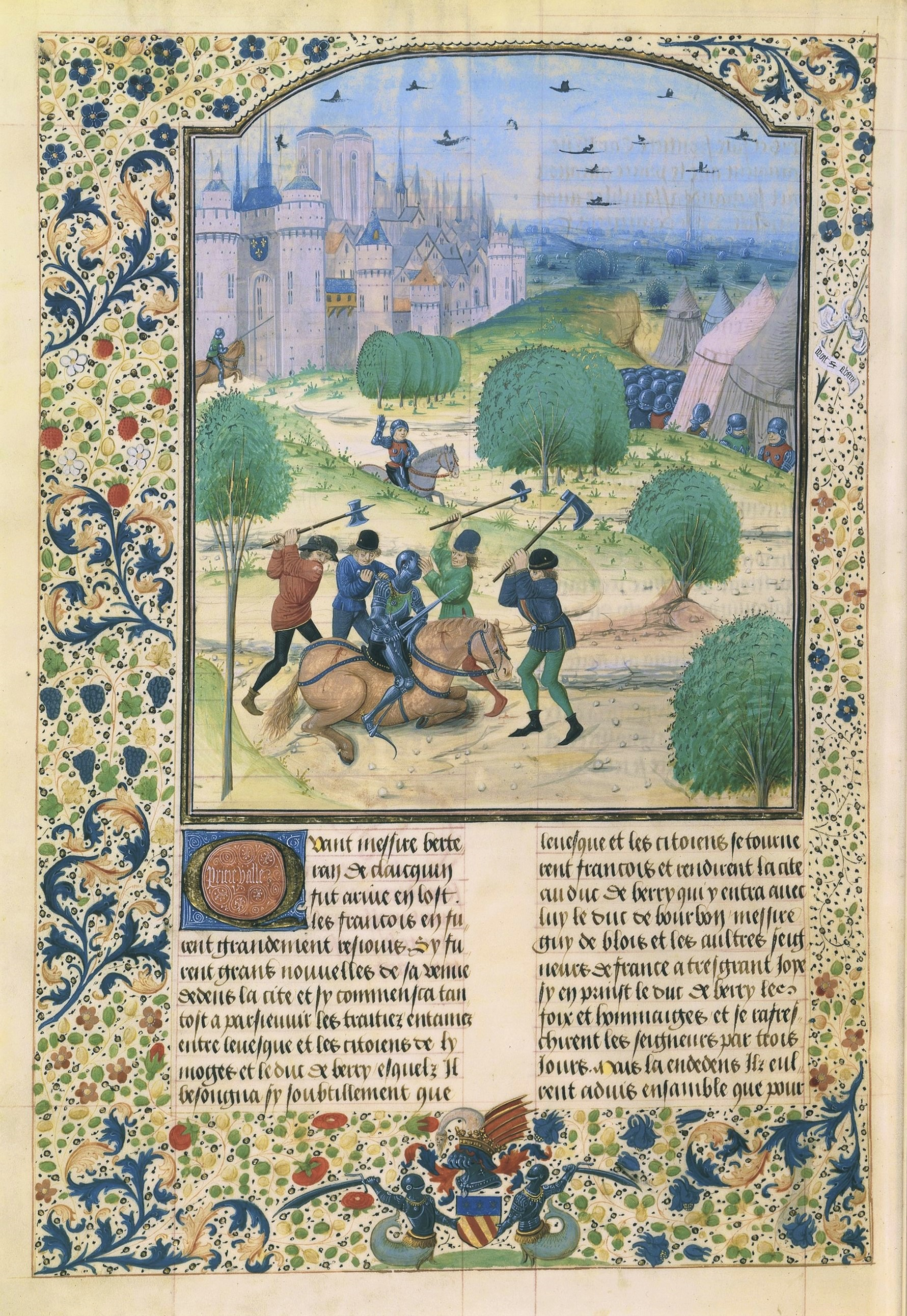 Peasants murder a knight.